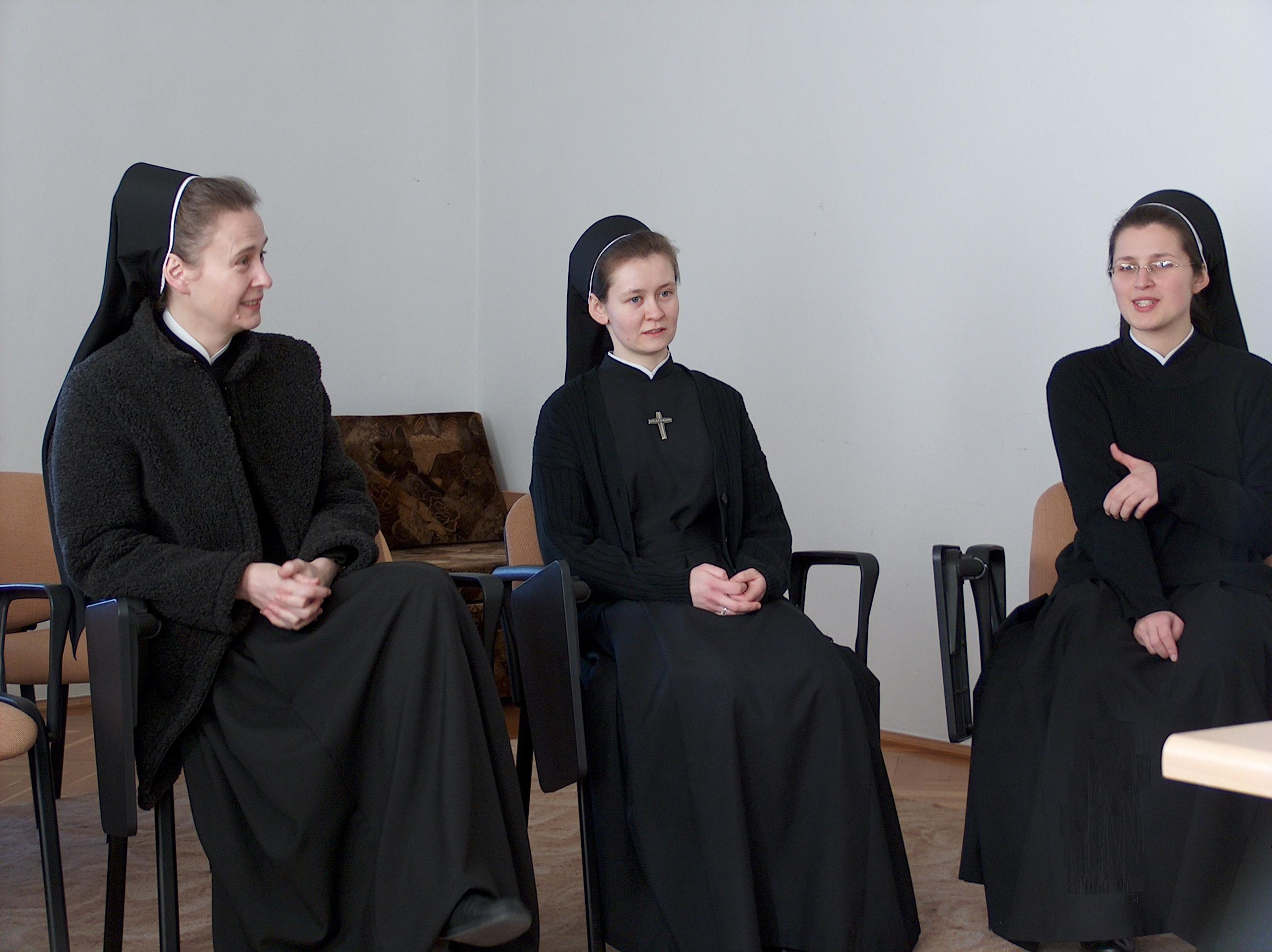 Pallottine Sisters (Congregatio Sororum Missionariarum Apostolatus Catholici)